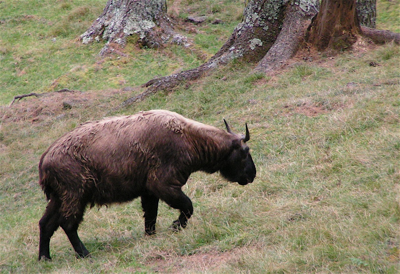 A tamin going up hill in the Preserve. Bhutan.